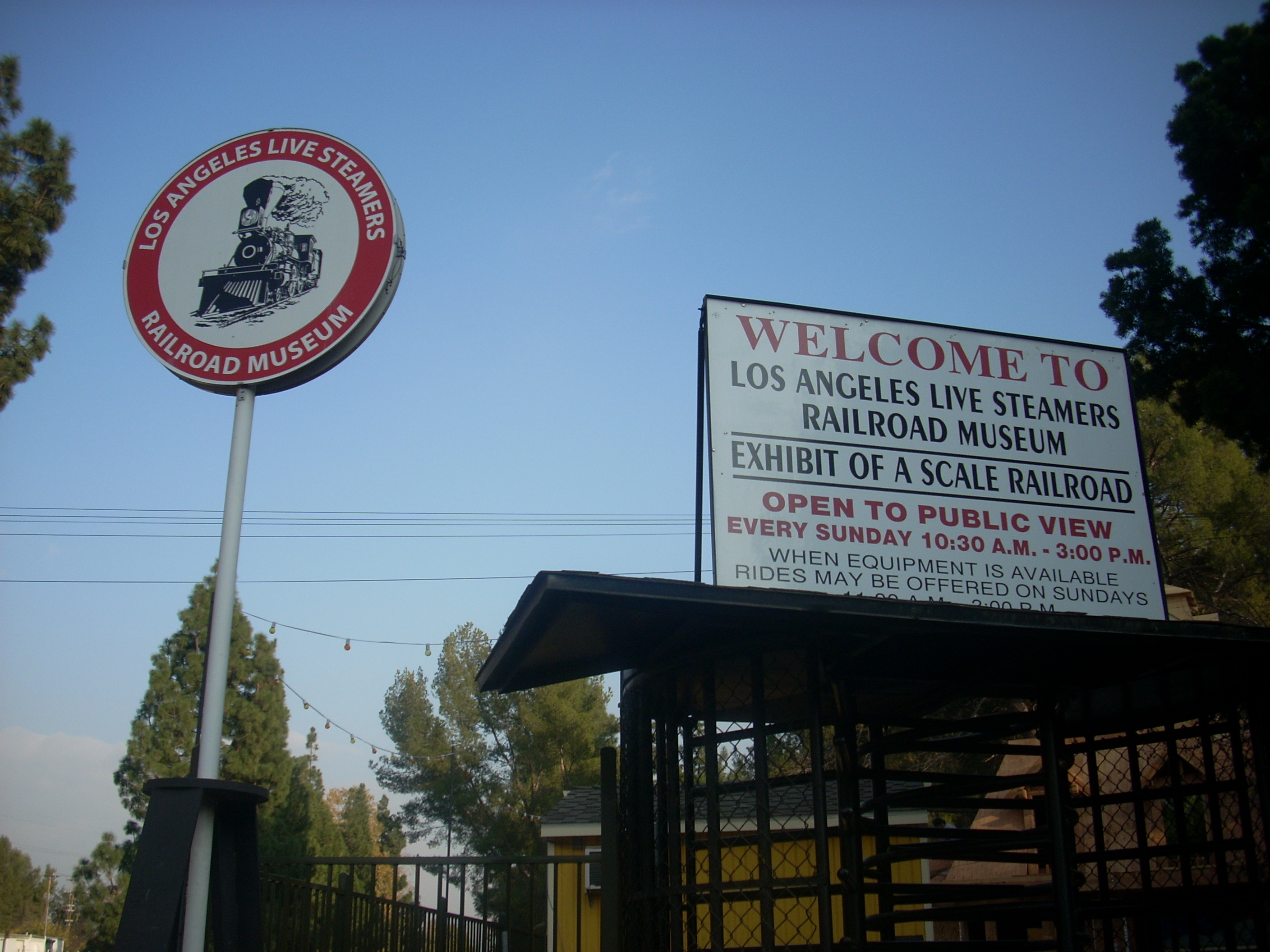 Sign for LA Live Steamers at Griffith Park